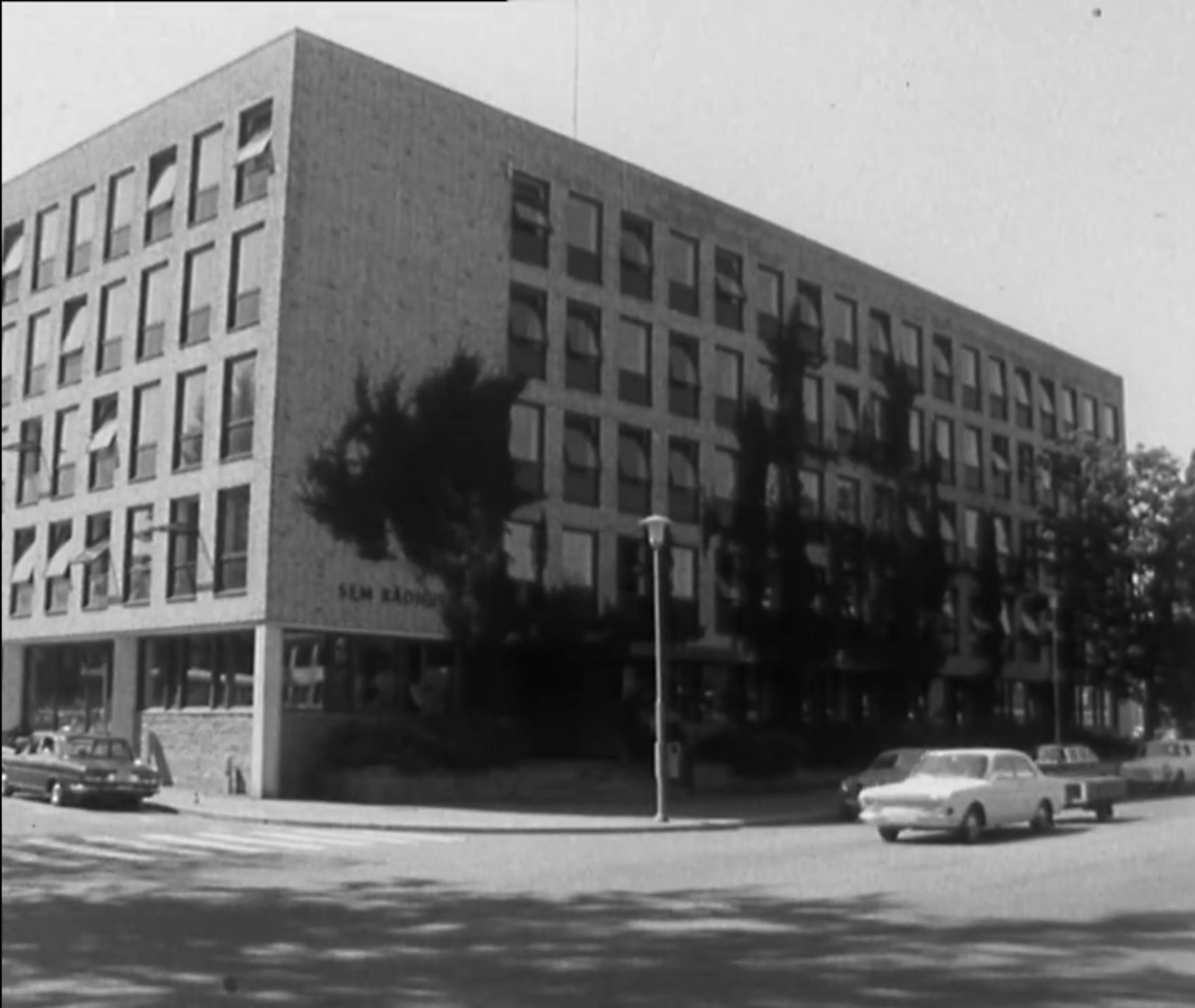 Sem Townhall 1970